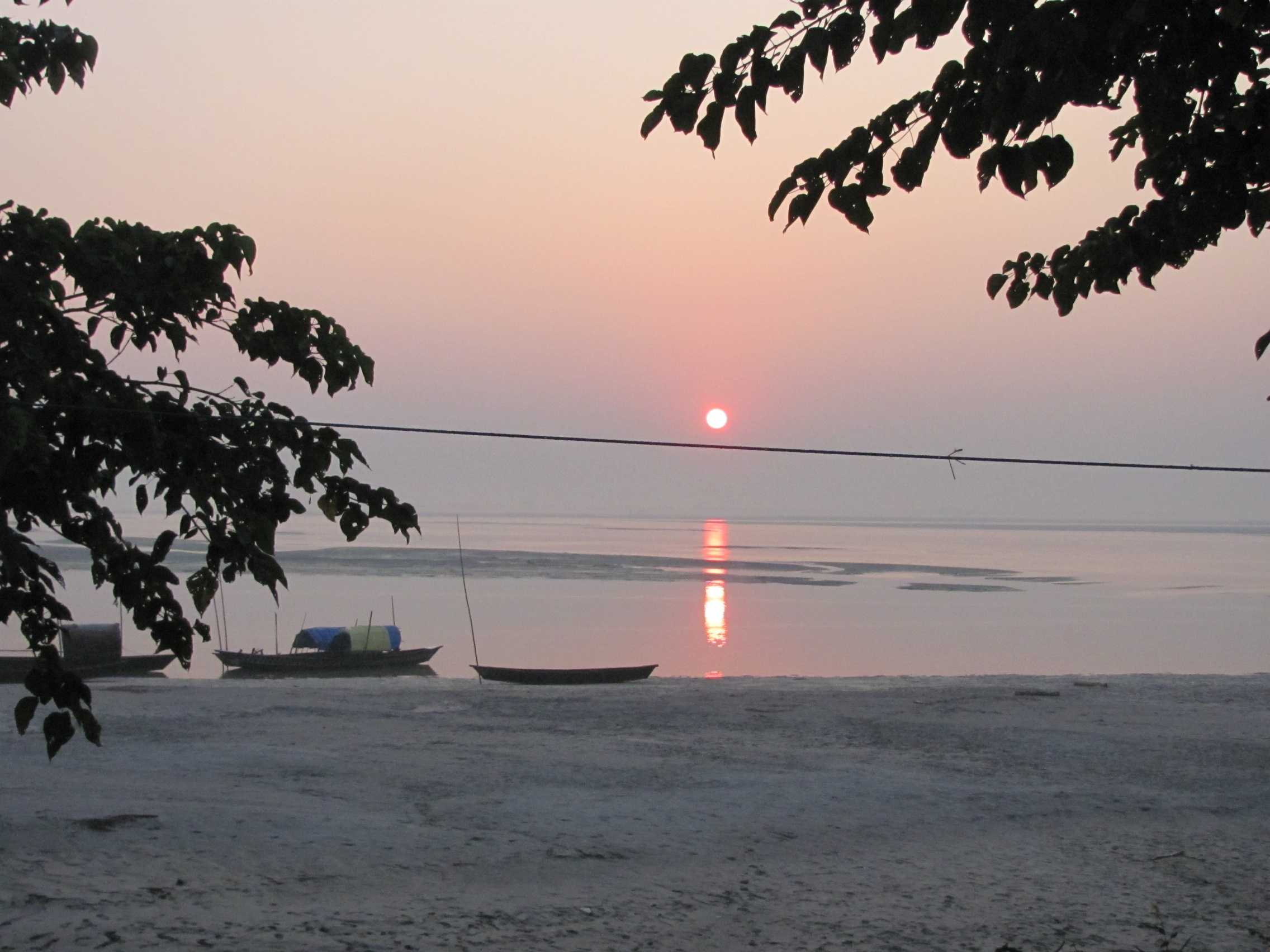 Jalpaiguri is a city in the Indian state of West Bengal. It is the largest city and the headquarters of the Jalpaiguri district, and the divisional headquarters of the North Bengal region. The city is located on the banks of the Teesta River which is the second largest river in West Bengal . This Picture Which I’ve uploaded was originally taken by me in the year 2011 8th November surprisingly someone used this photograph in this place claimed as his or her own property which was actually captured by me (Picture):Jayanta Chakraborty so now I present the original picture as I can't accept this cheap trick that's concerns my home town JalpaiguriJayanta Chakraborty,(jayanta_zway )